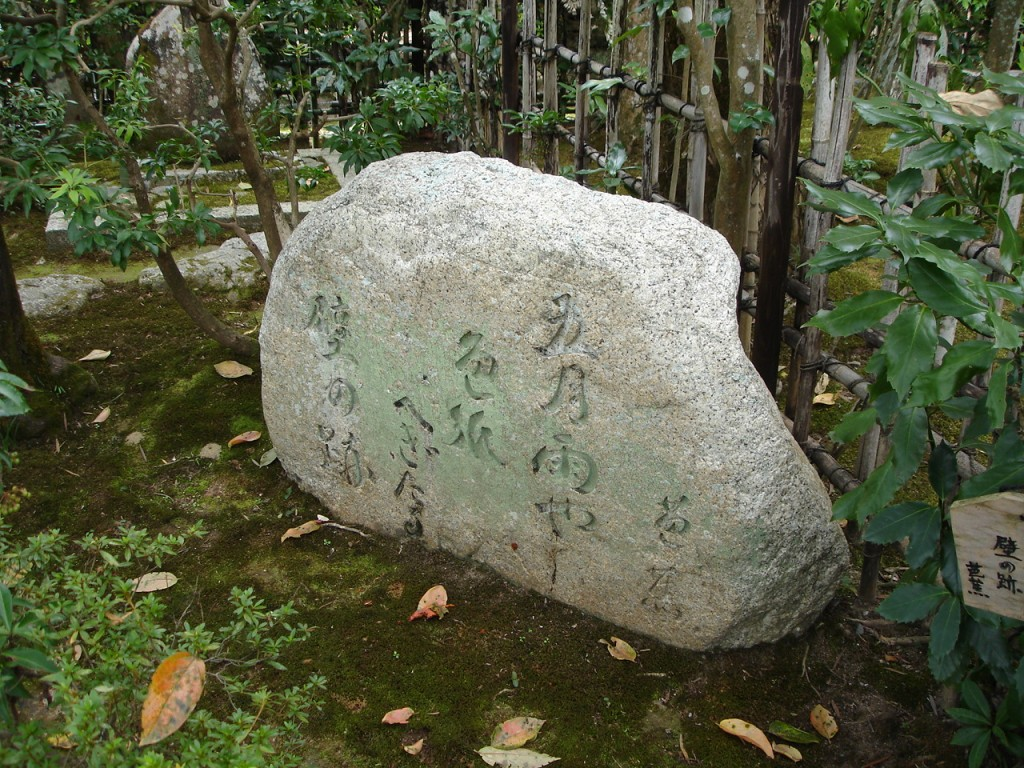 Rakushisha in Sagano, Kyoto, Japan